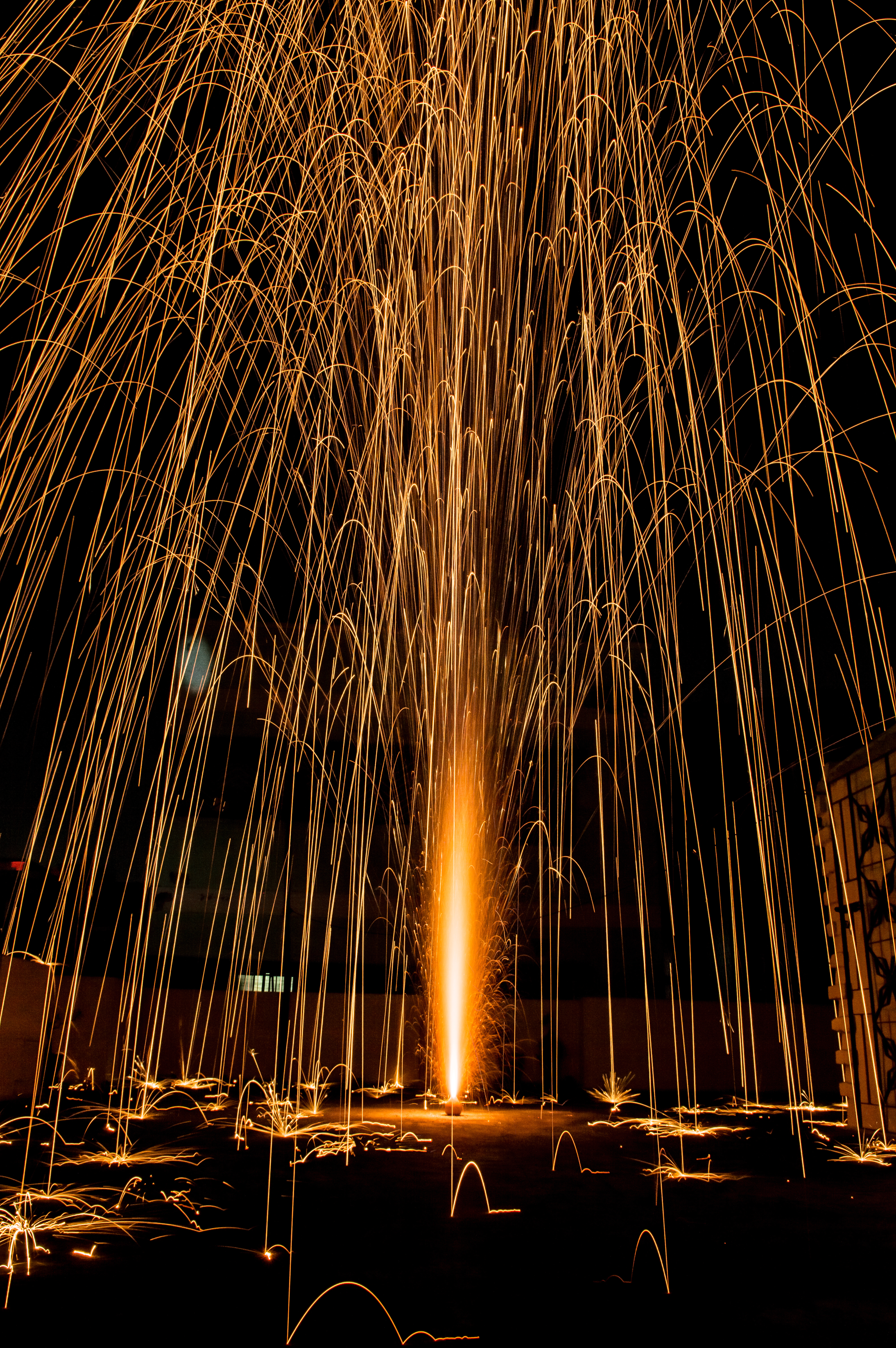 Beautiful large flower cracker creating brilliant light and sparkles at night